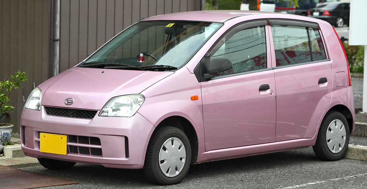 6th generation Daihatsu Mira ( L250, Dec. 2002 - Aug. 2005 )